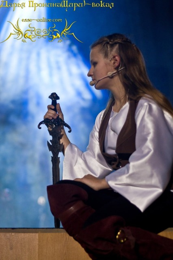 Daria Pronina. Cirilla Fiona Elen Riannon (Ciri, Zireael, Swallow). Rock-opera "Road without return" of group "ESSE", based on the saga of A. Sapkowski "The Witcher". Scene 13. "Lady of the lake". Photo from an "ESSE" - group concert in Rostov-on-Don 10.04.2010.